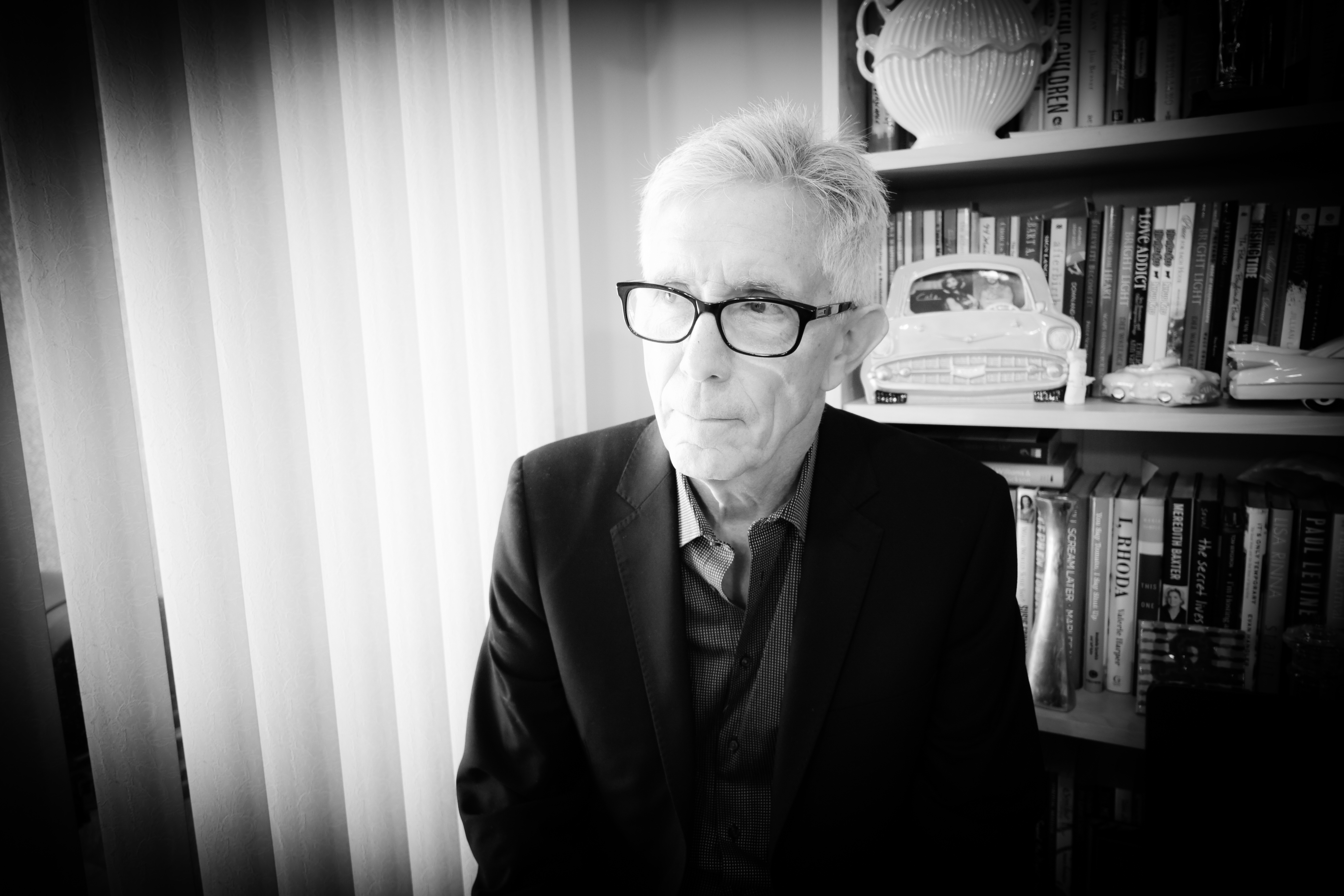 Fritz Coleman at Vicki Abelson's Women Who Write